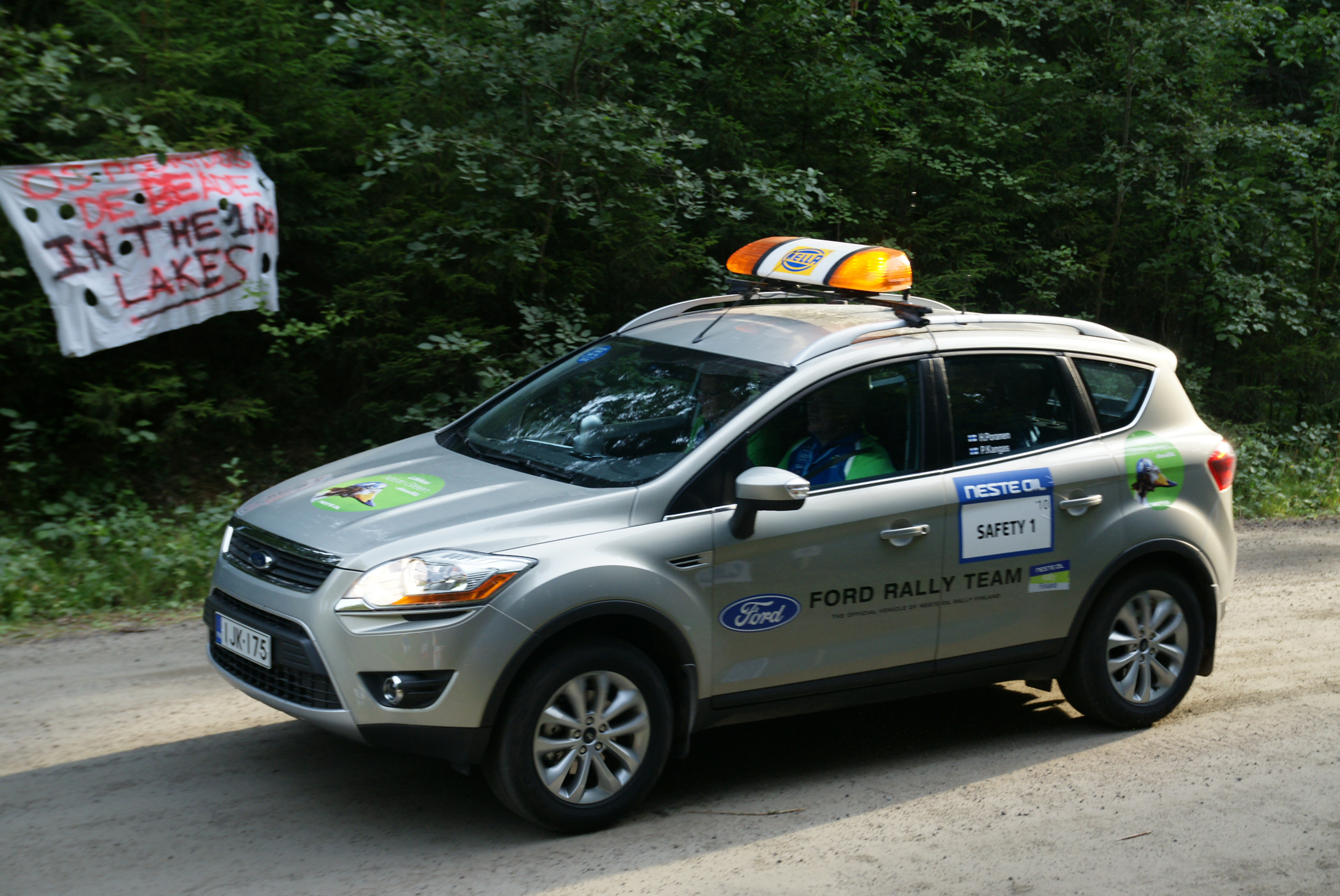 Safety car at Rannakylä shakedown in Muurame.